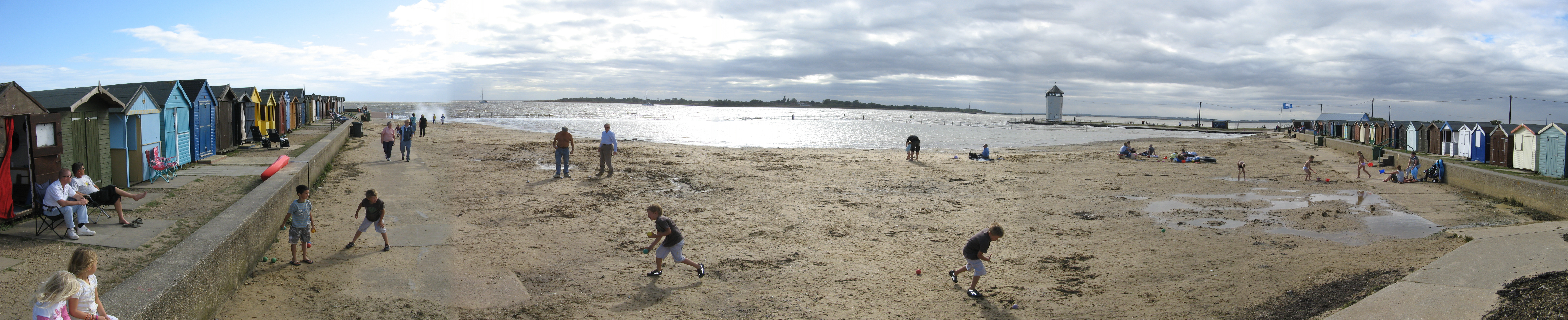 Small beach at end of Western Promenade, Brightlingsea, with Bateman's Tower in distance.